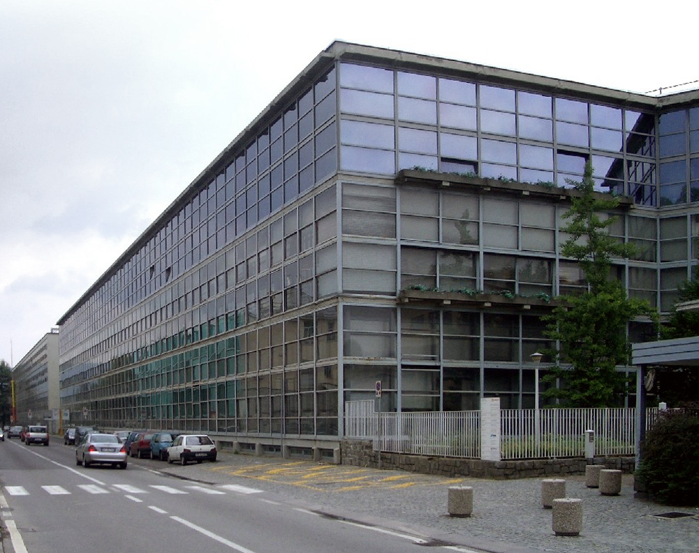 The building of Olivetti corporation in Ivrea, Italy